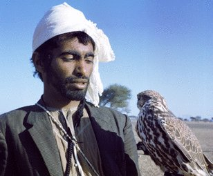 This 1965 photograph shows a huntsman with his falcon near Al-Ain, a desert oasis located approximately 160 kilometers east of the city of Abu Dhabi in the emirate of Abu Dhabi. Falconry is both a sport and a means of hunting for food that developed over centuries in the Arab world and in other countries. Known as the “sport of shaykhs,” falconry was inscribed on the UNESCO Representative List of the Intangible Cultural Heritage of Humanity in 2010. The photograph is from the Colonel Edward "Tug" Bearby Wilson Collection in the National Library, Abu Dhabi Authority for Culture and Heritage, and was taken by Wilson. Colonel Tug Wilson (1921–2009) was a British army officer who, in the 1960s, was seconded to the government of Abu Dhabi to help build the national defense force. He was a personal friend of the ruler of Abu Dhabi, Shaykh Zayed bin Sultan Al Nahyan (1918–2004), with whom he shared interests in falconry and horseback riding.